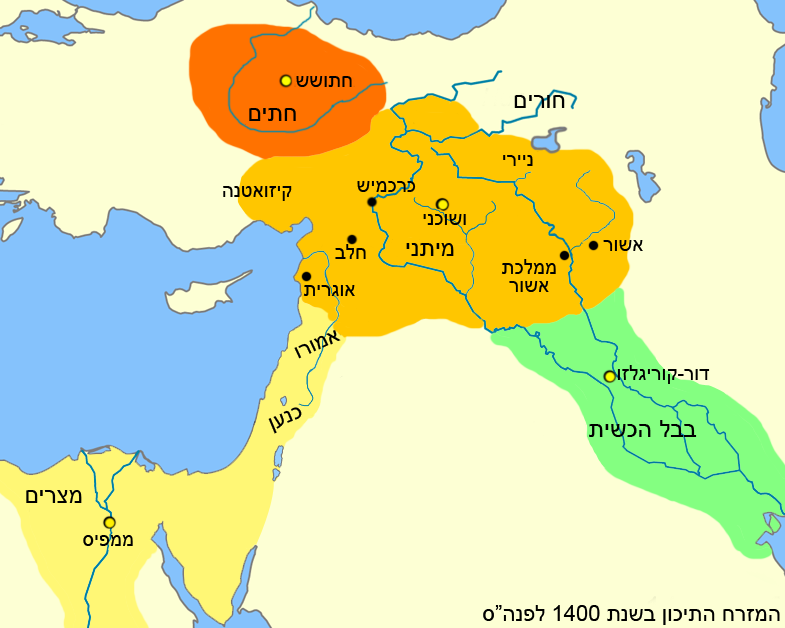 Map of the near east circa 1400 BCE.